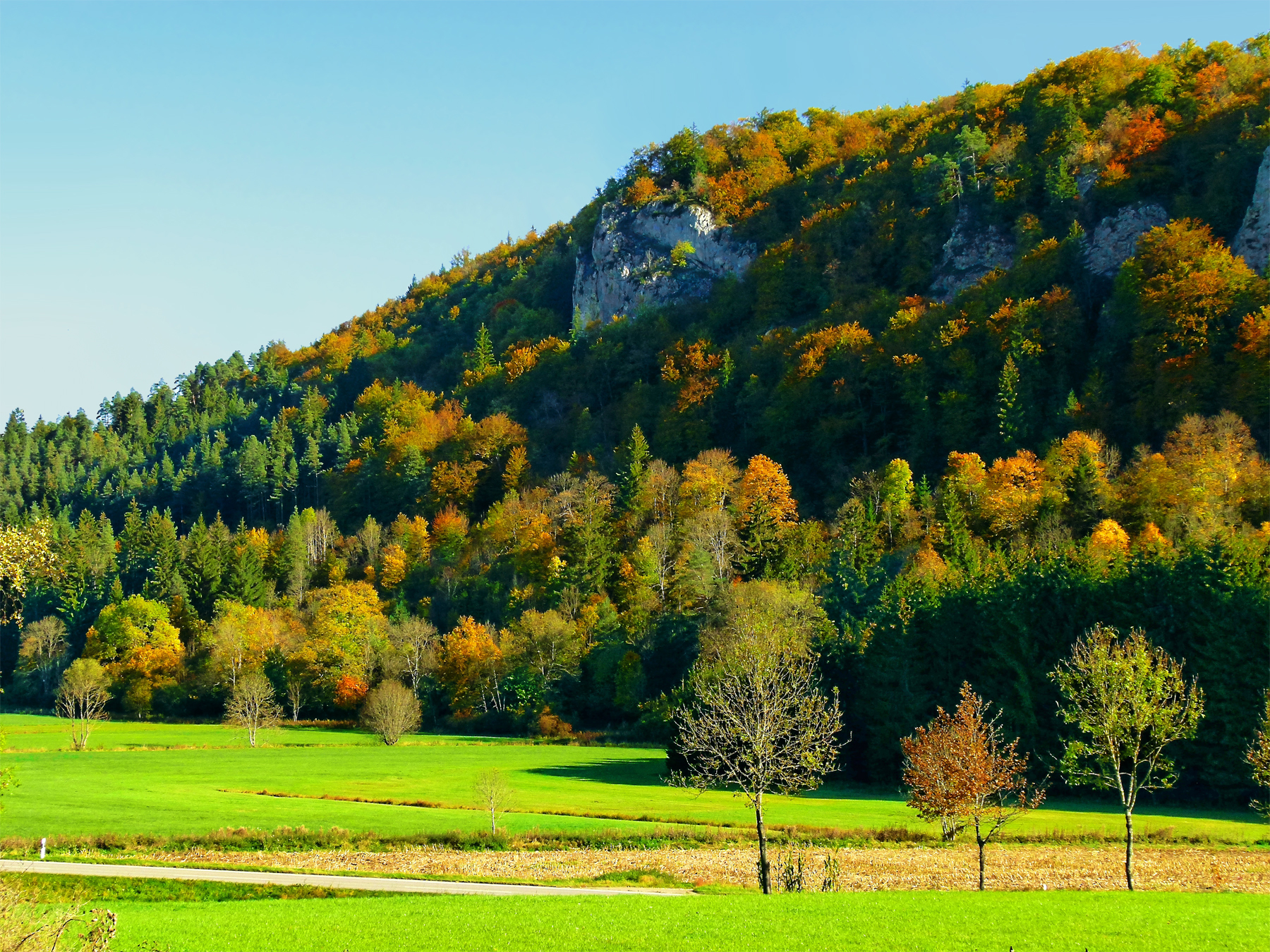 River Bära in its deeply eroded valley on the plateau of the Swabian Alb.